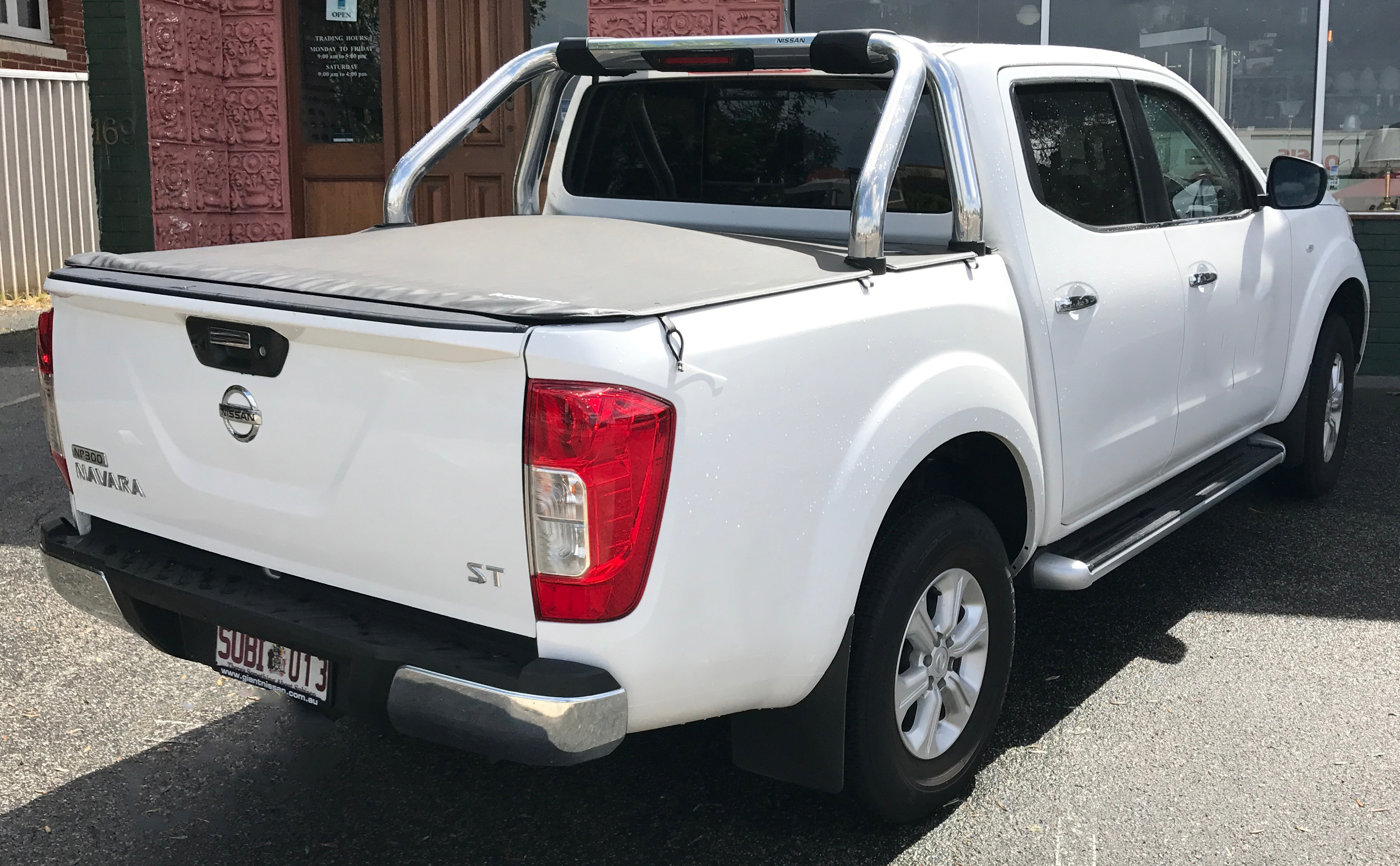 2016 Nissan NP300 Navara (D23) ST 4-door utility. Photographed in Nedlands, Western Australia, Australia.